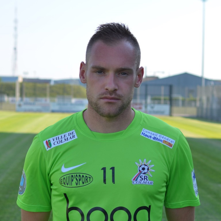 SR Colmar